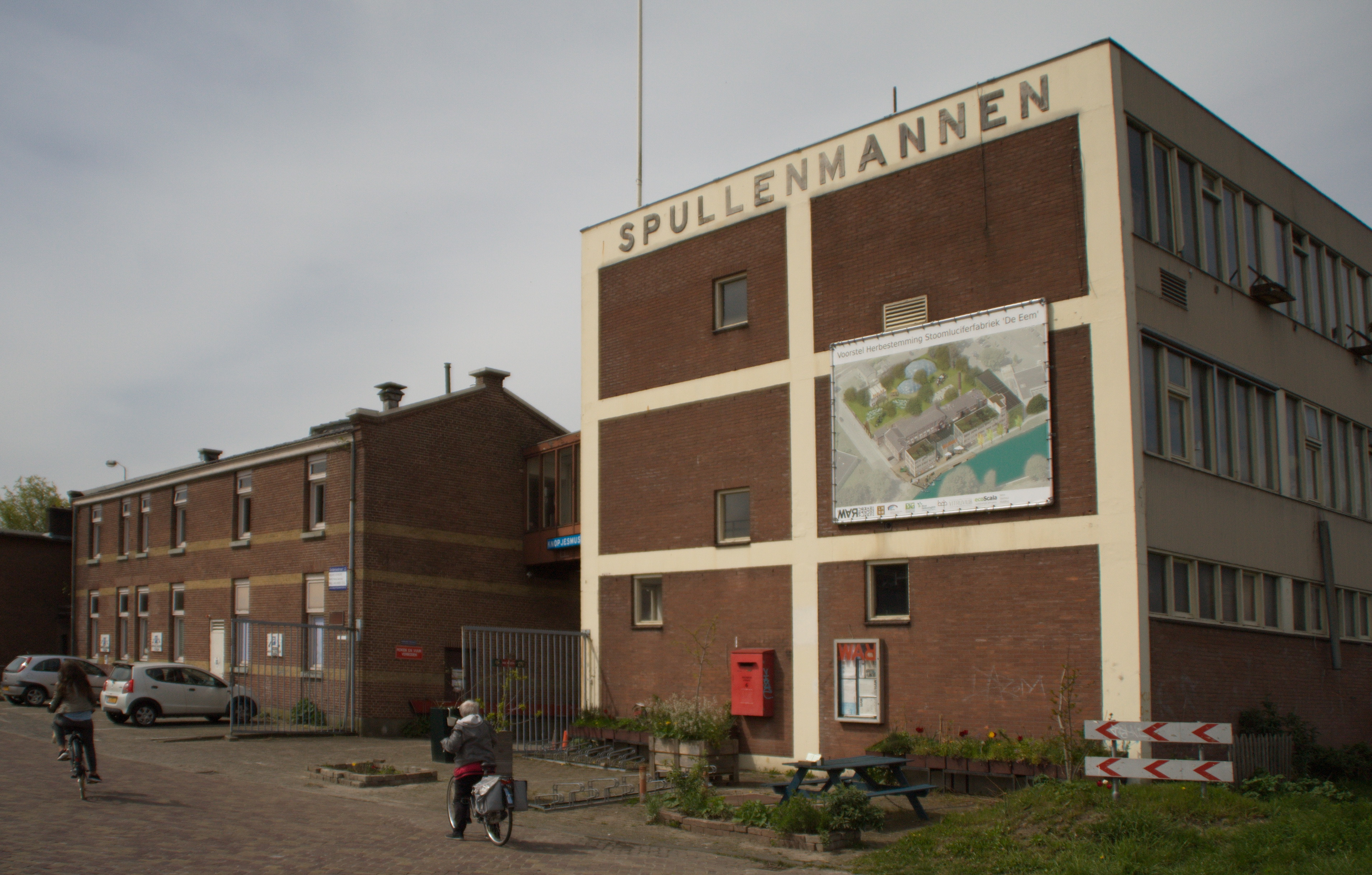 former match factory Warner Jenkinson in Amersfoort. The Netherlands